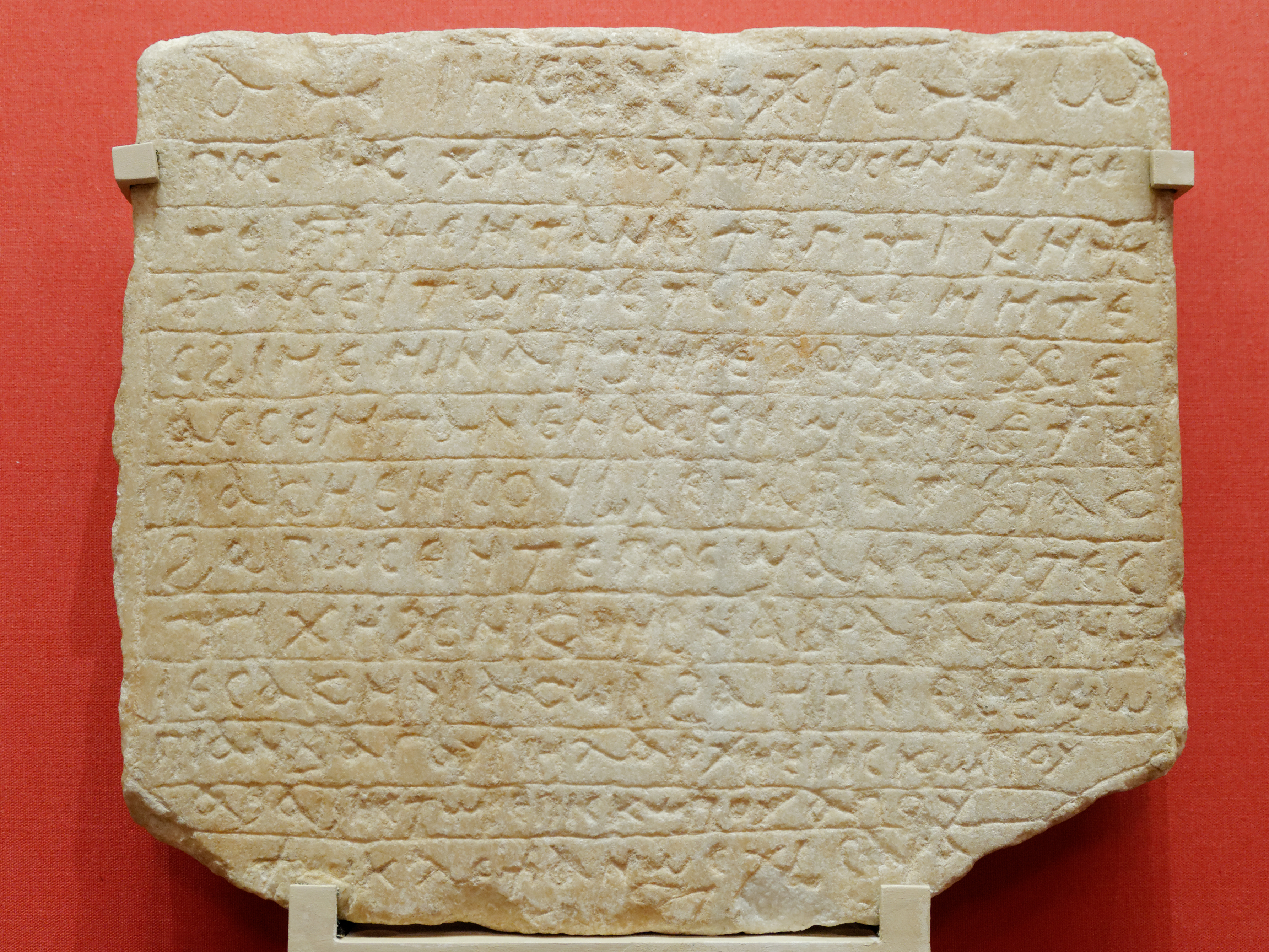 Funerary stele of Thousei.